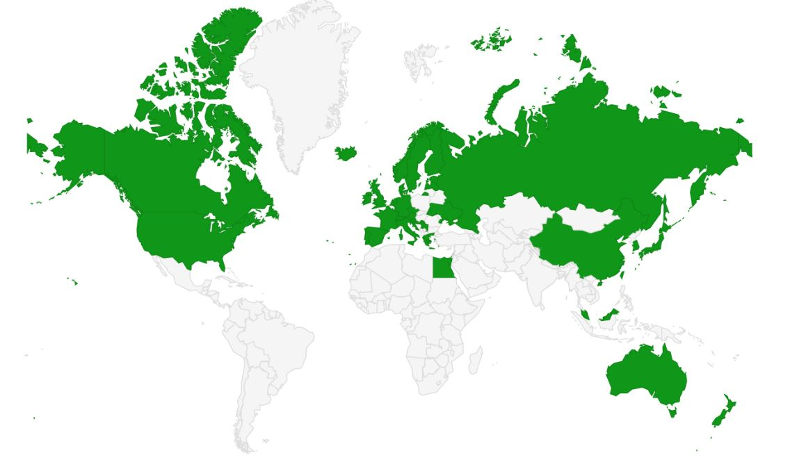 Map with the list of initiatives